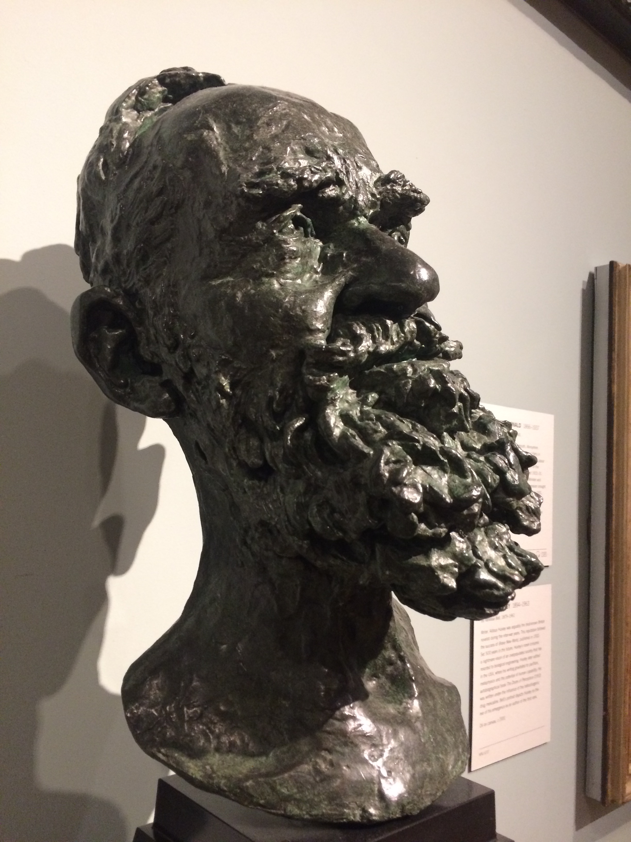 George Bernard Shaw, by Jacob Epstein, 1934, National Portrait Gallery, London